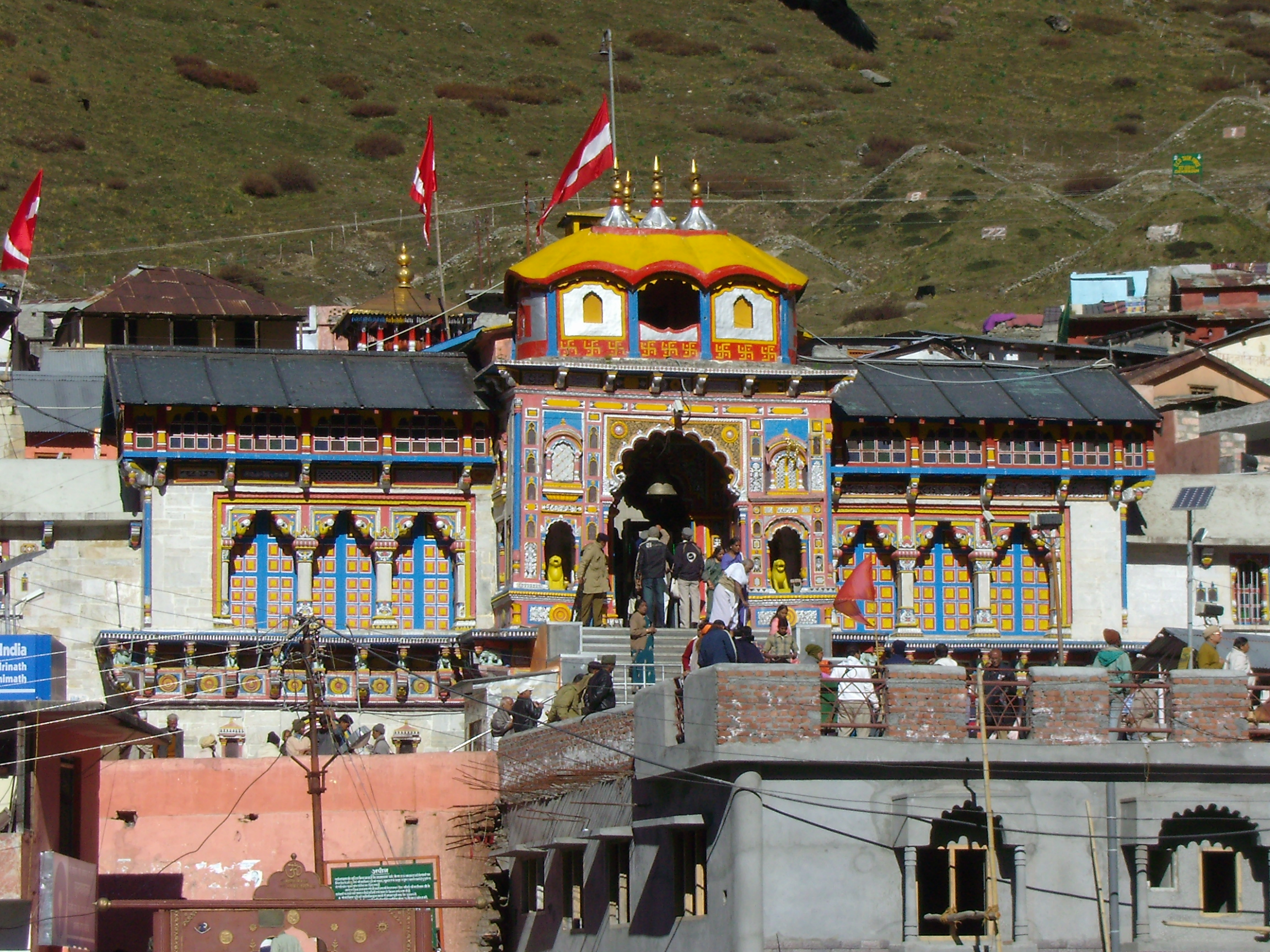 Temple at Badrinath, Uttarkhand, India